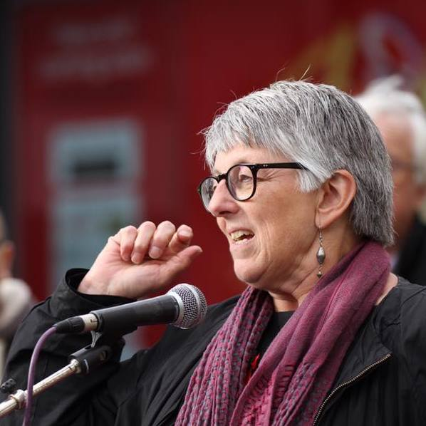 Julie Ward MEP